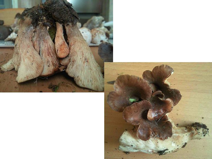 Hohenbuehelia petaloides (Bull.) Schulzer Image location: Kolea, Tipaza, Algeria but Hohenbuehelia geogenia is the right spelling of the name geogina which is a synonym to petaloides according to M.O. Recognized by sight: that’s the right spelling of this species :) For more information about this, see the observation page at Mushroom Observer.